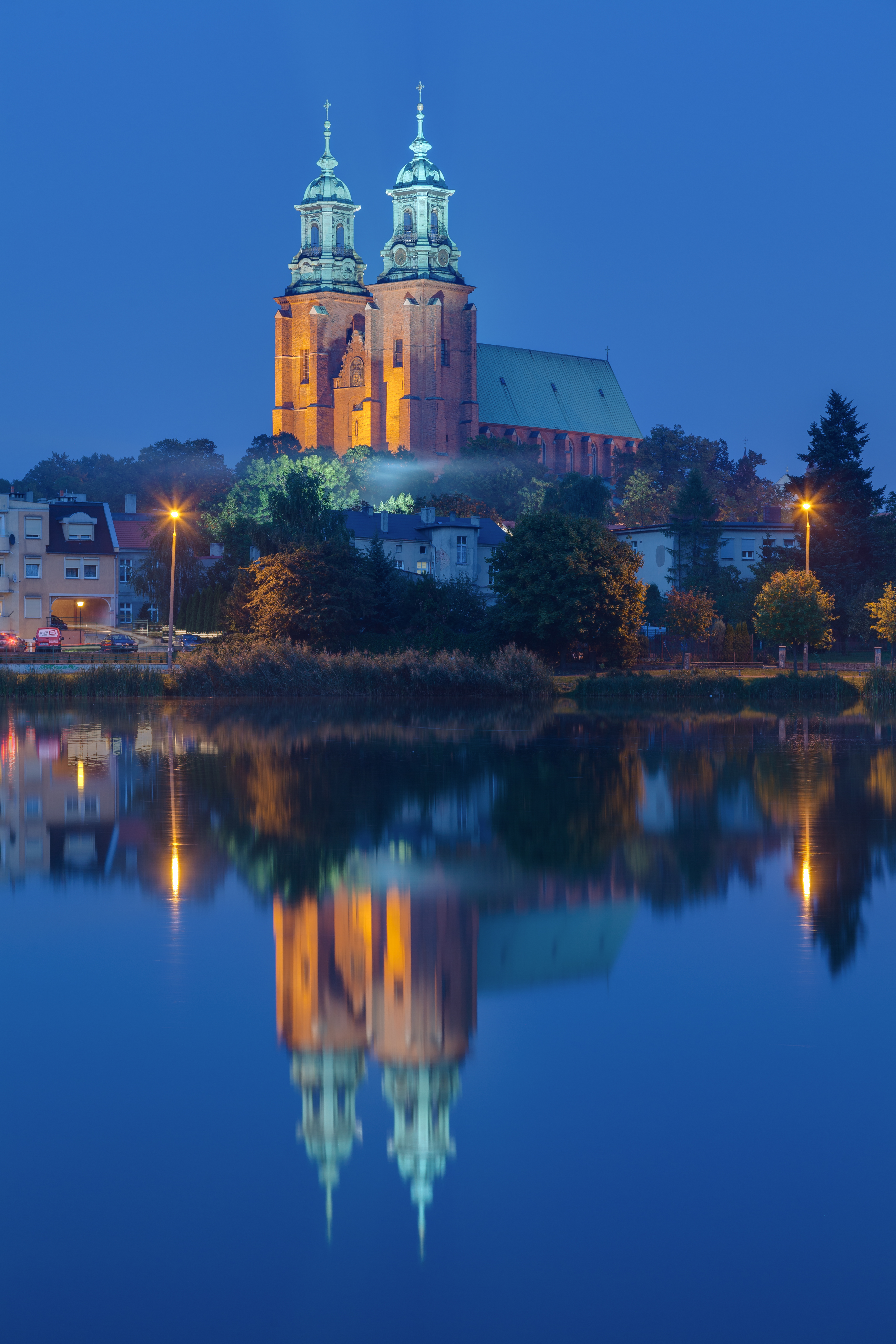 Gniezno Cathedral, Gniezno, Poland